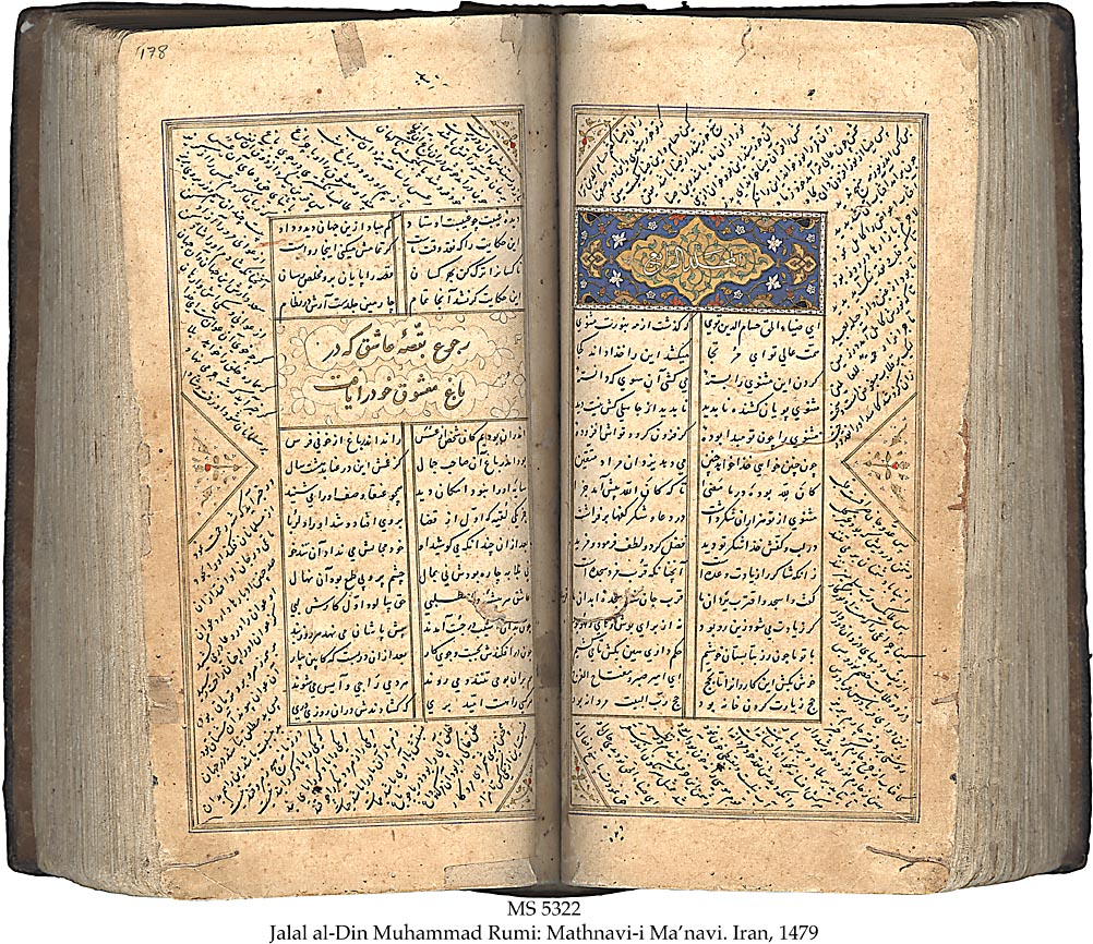 Manuscript in Persian on paper, Shiraz, 1479, 358 ff. (complete), 22x11 cm, 2 columns, (18x9 cm), 19 lines, + 39 lines written diagonally in the margins, in Nasta’liq and Naskhi scripts by Hussain ibn Shaikh ‘Ali, inter-columnar and inner and outer margins ruled in gold, headings and corner sections written in gold with cloud banks or in white script on gold ground with floral motifs in green and blue, preface with gold Nasta’liq script on a ground of white clouds with borders illuminated in gold and colours, numerous ownership inscriptions and 17 seal impressions, including some from the Imperial Mughal Library.